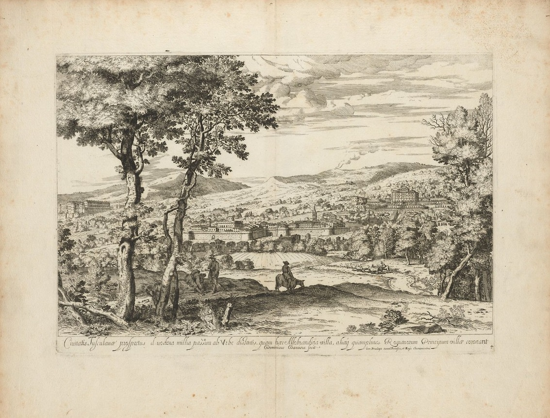 Engraving by French artist Dominique Barrière (c. 1622-1678). From Villa Aldobrandina Tusculana sive varij illius hortorum et fontium prospectus, 1647. Plate 4. Typ 625.47.194 (A), Houghton Library, Harvard University